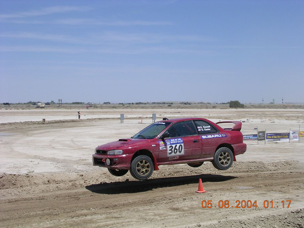 Rim Of The World Rally 2004, Lancaster, California